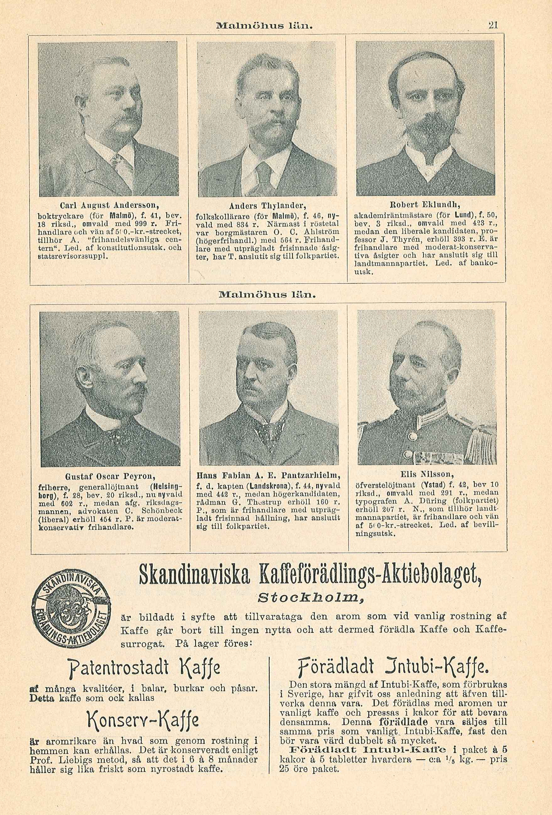 Page 21 of an album featuring portraits of all the members of the second chamber of the Swedish parliament (Sveriges riksdag) elected in 1897. This page featuring parts of the members representing the county of Malmöhus.